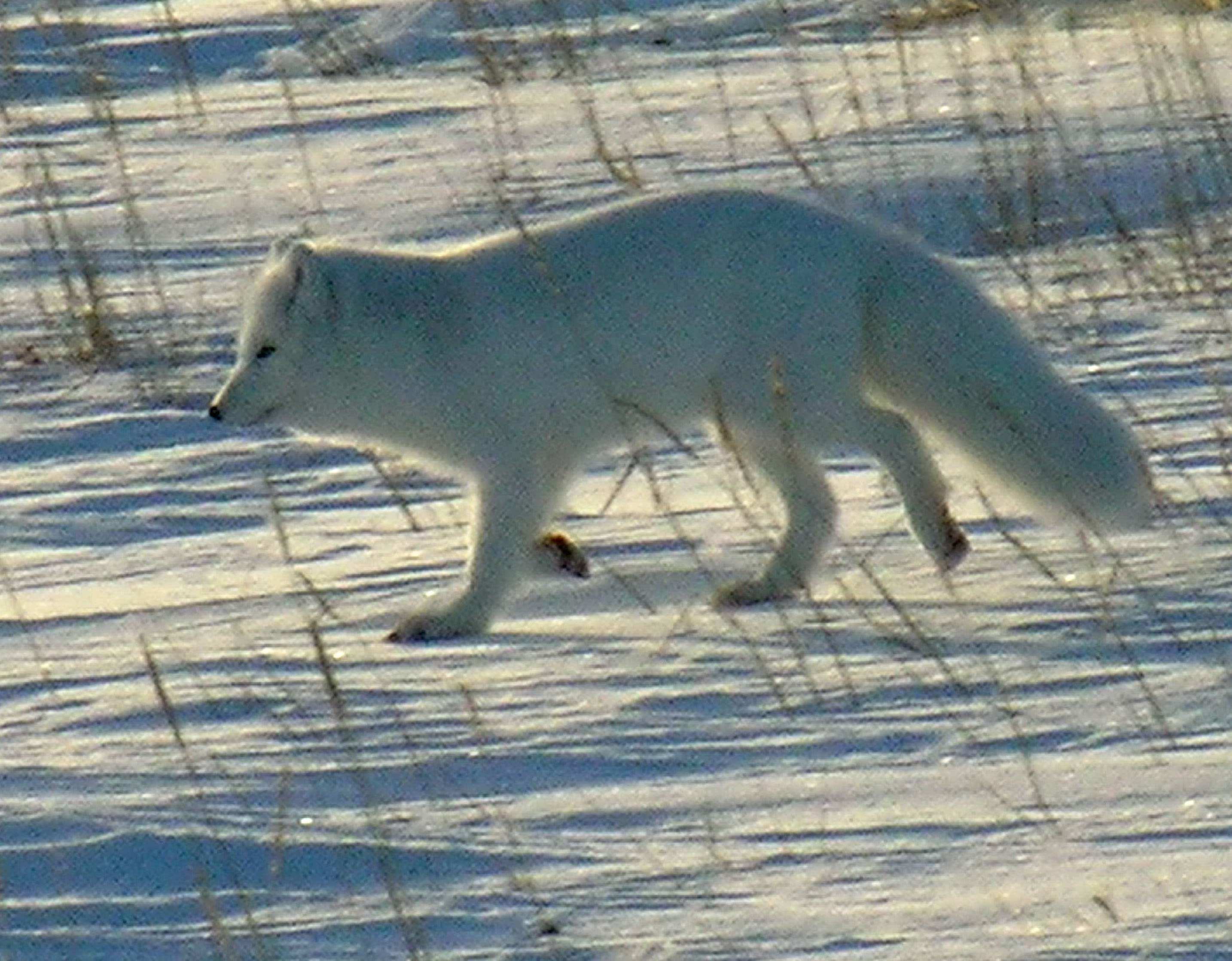 Polar fox (Wapusk National Park, Manitoba, Canada)